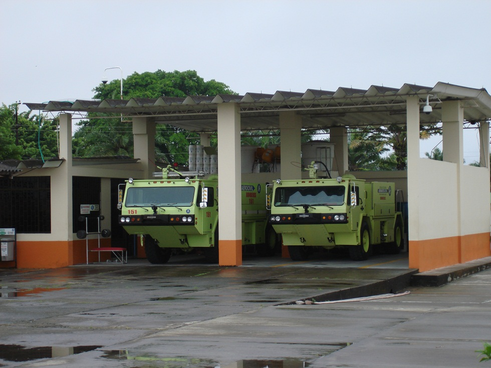 Estación de Bomberos aeropuerto la Florida